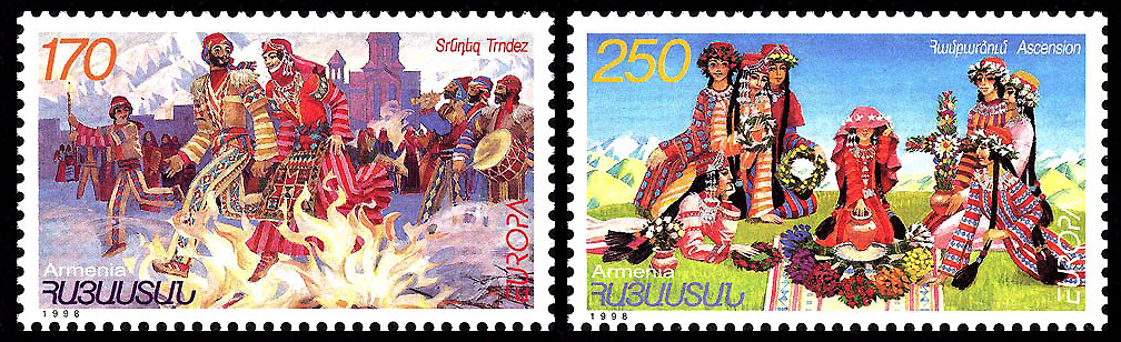 Stamp of Armenia